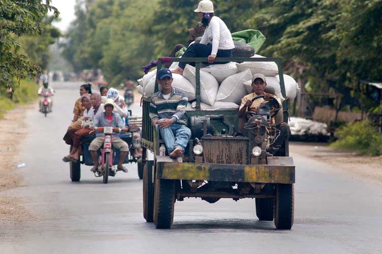 National highway #1 SE of Phnom Penh - Koyun in front and remorque behind